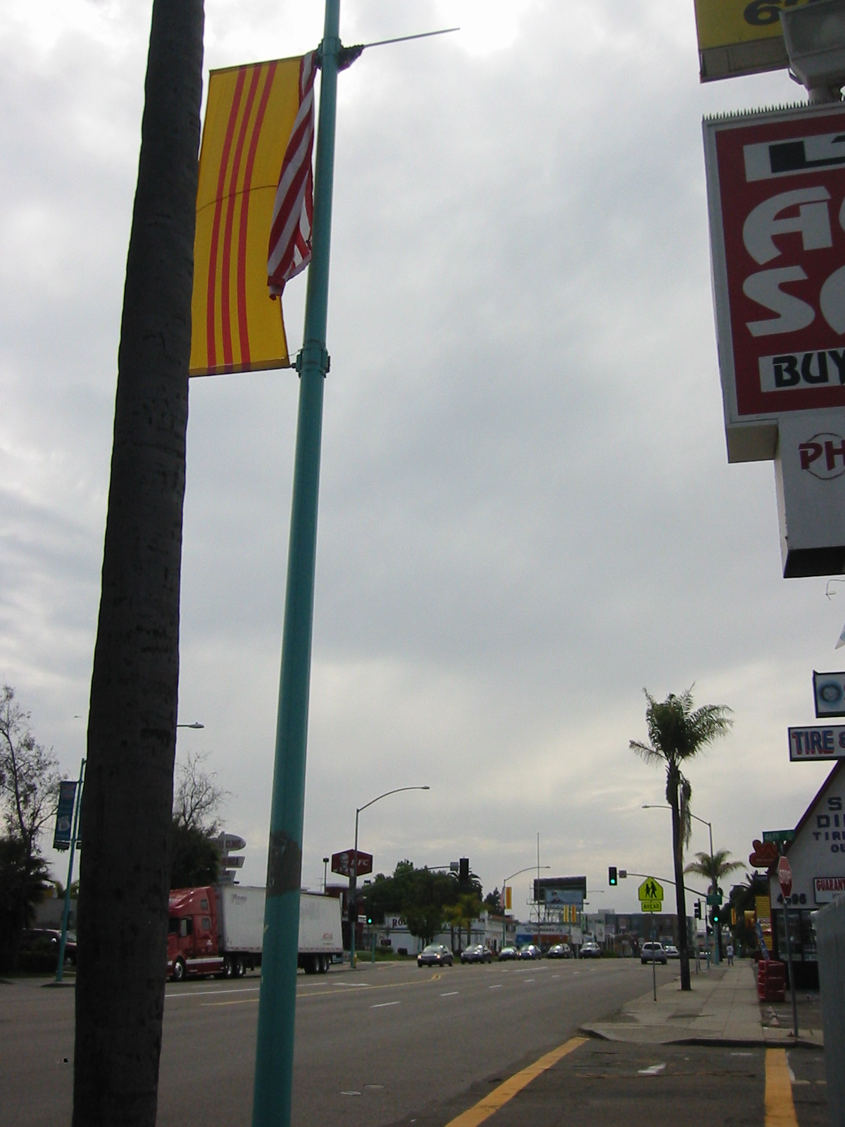 Vietnamese Heritage Flags lining El Cajon Blvd in San Diego, CA. Image taken on the corner of 46th Street and El Cajon Boulevard.